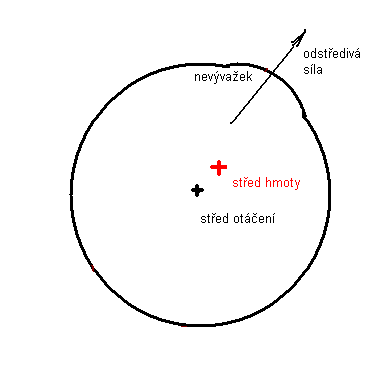 unbalance ilustration